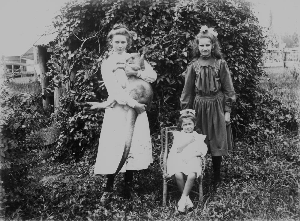 Three girls and a kangaroo, 1900-1910. The girls pose in a garden in front of a shed covered in creepers. The girl on the right stands and holds the kangaroo aloft. The youngest girl sits in a small, wicker chair.